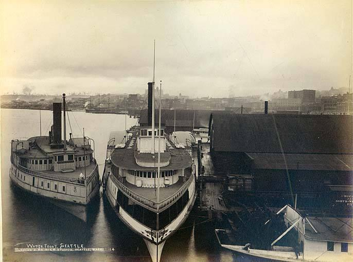 This is the Oregon Improvement company dock at Seattle, Washington in 1891. The smaller sidewheel steamer on the left is the North Pacific. The large sidewheel steamer nearest to the wharf is probably the T.J. Potter. Other smaller steamers, apparently mostly sternwheelers, cannot be identified.